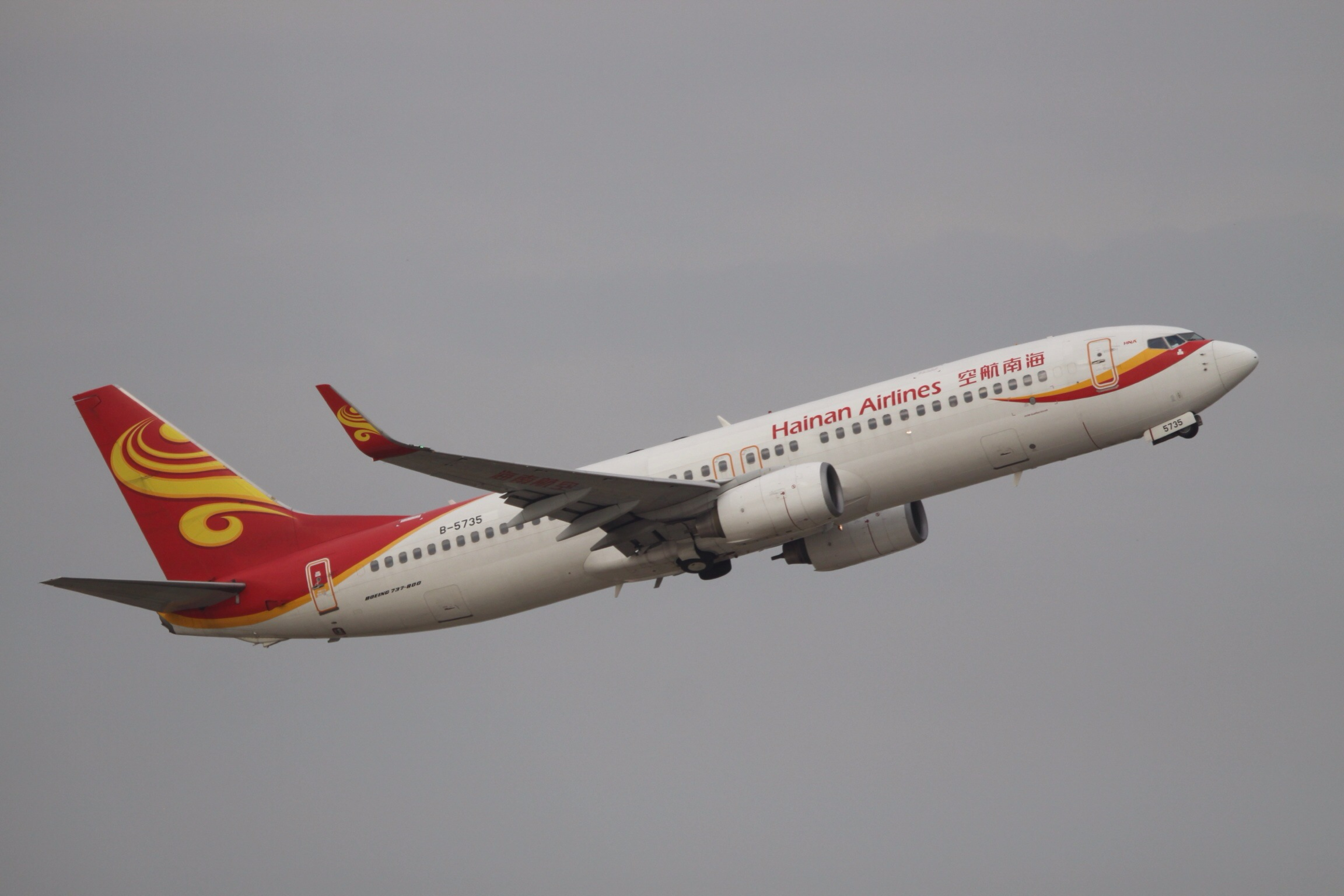 At Shenzhen Bao'an International Airport